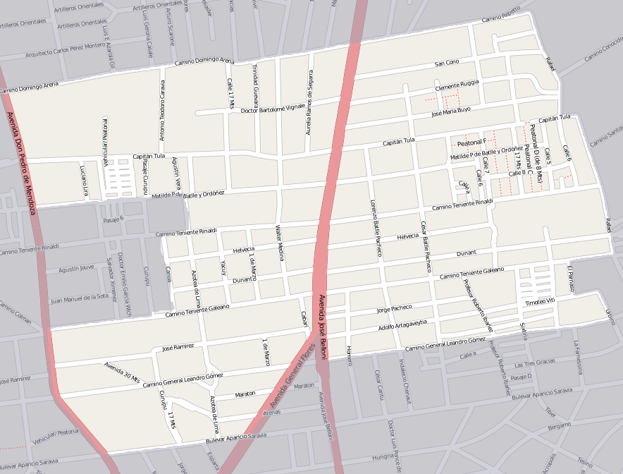 Street map of Piedras Blancas, Montevideo, exported from OpenStreetMap. I added shading to delimit the barrio. This map may be incomplete, and may contain errors. Don't rely solely on it for navigation.